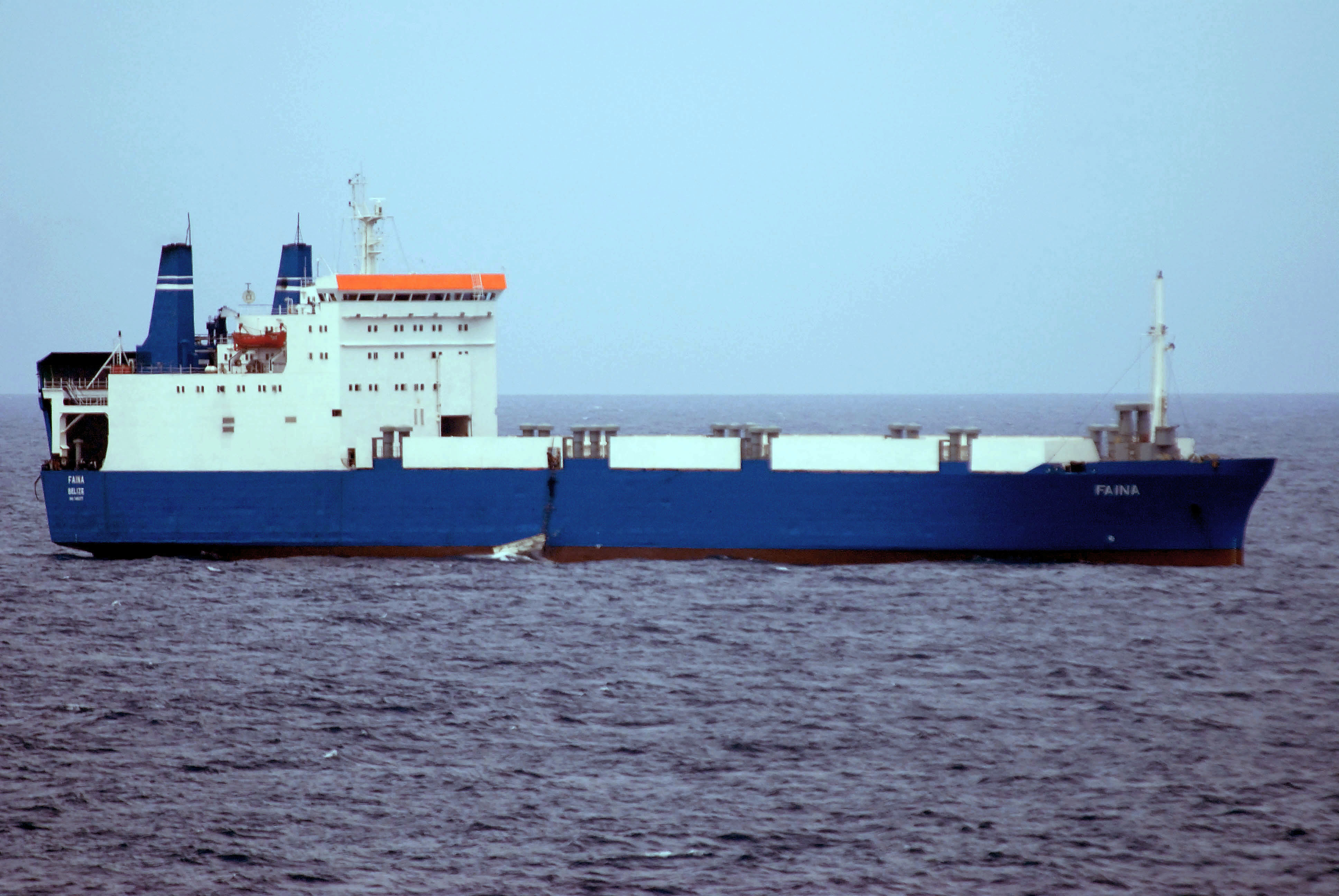 Pirates holding the Ukrainian merchant vessel MV Faina receive supplies Sept. 30, 2008, while under observation by a U.S. Navy ship off the coast of Hoybyo, Somalia. The Belize-flagged cargo ship is owned and operated by the Ukraine-based Kaalybe Shipping and is carrying a cargo of Ukrainian T-72 tanks and related equipment. The ship was hijacked Sept. 28, 2008, and forced to anchor off the coast of Somalia. IMO Number: 7419377 MMSI Number: 312675000 Callsign: V3EZ2 Length: 162 m Beam: 18 m